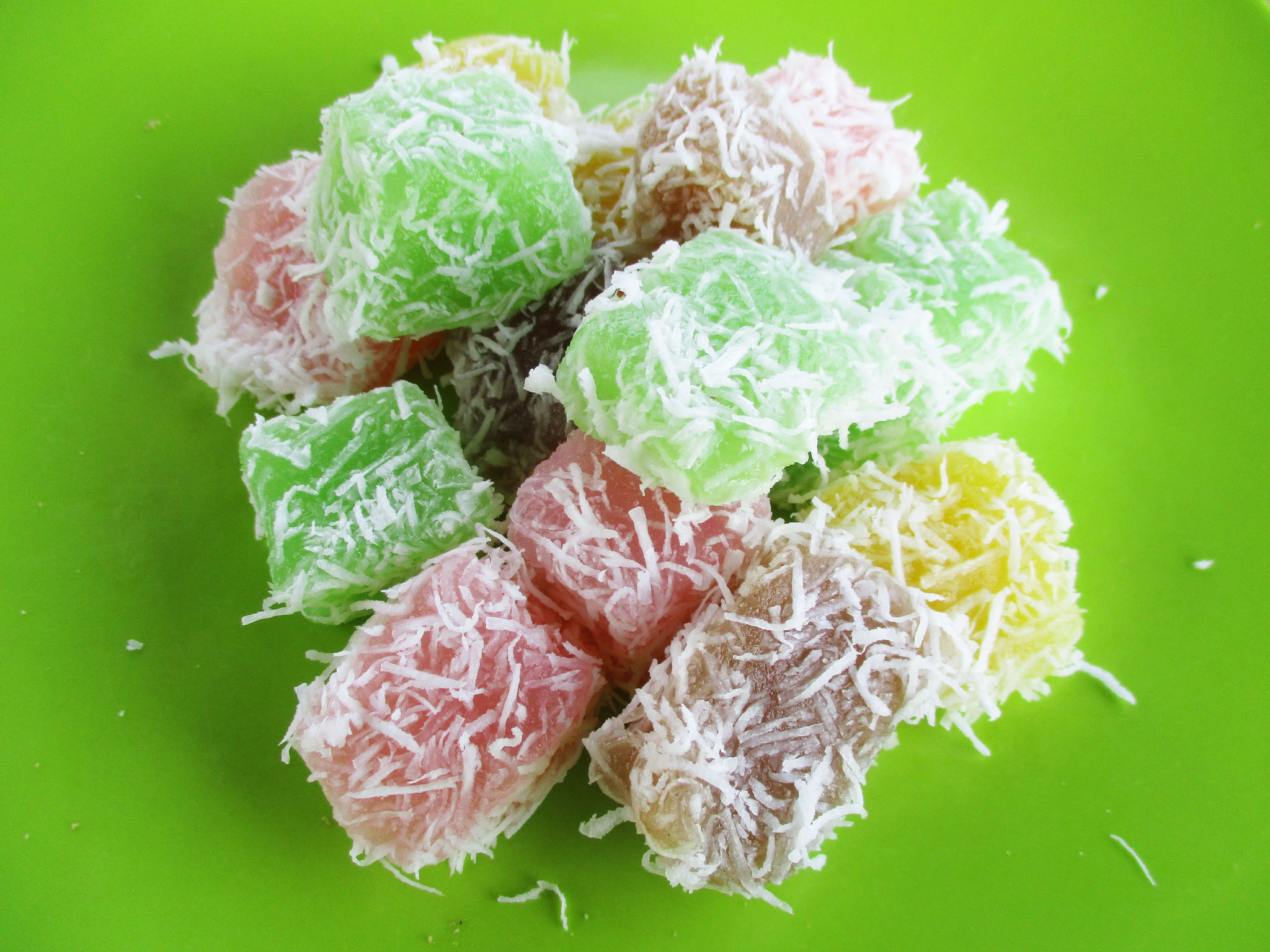 Senthiri is made from glutinous rice flour, that springled with grated coconut.